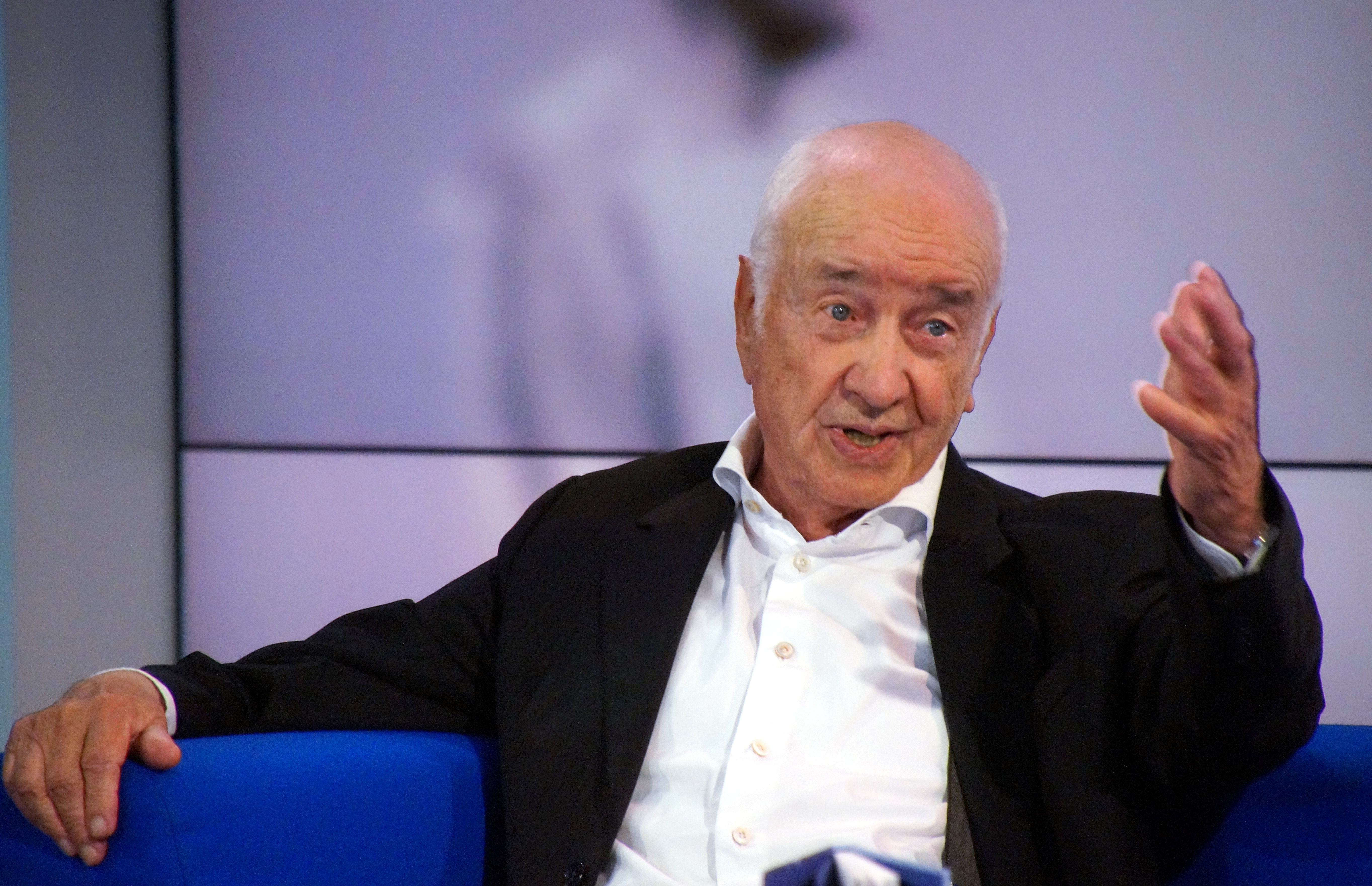 Armin Mueller-Stahl at Frankfurt Book Fair 2018 presenting his book "Der wien Vogel fliegen kann" (The man who can fly like a bird) in the 3sat/ZDF literature TV show "Das Blaue Sofa".